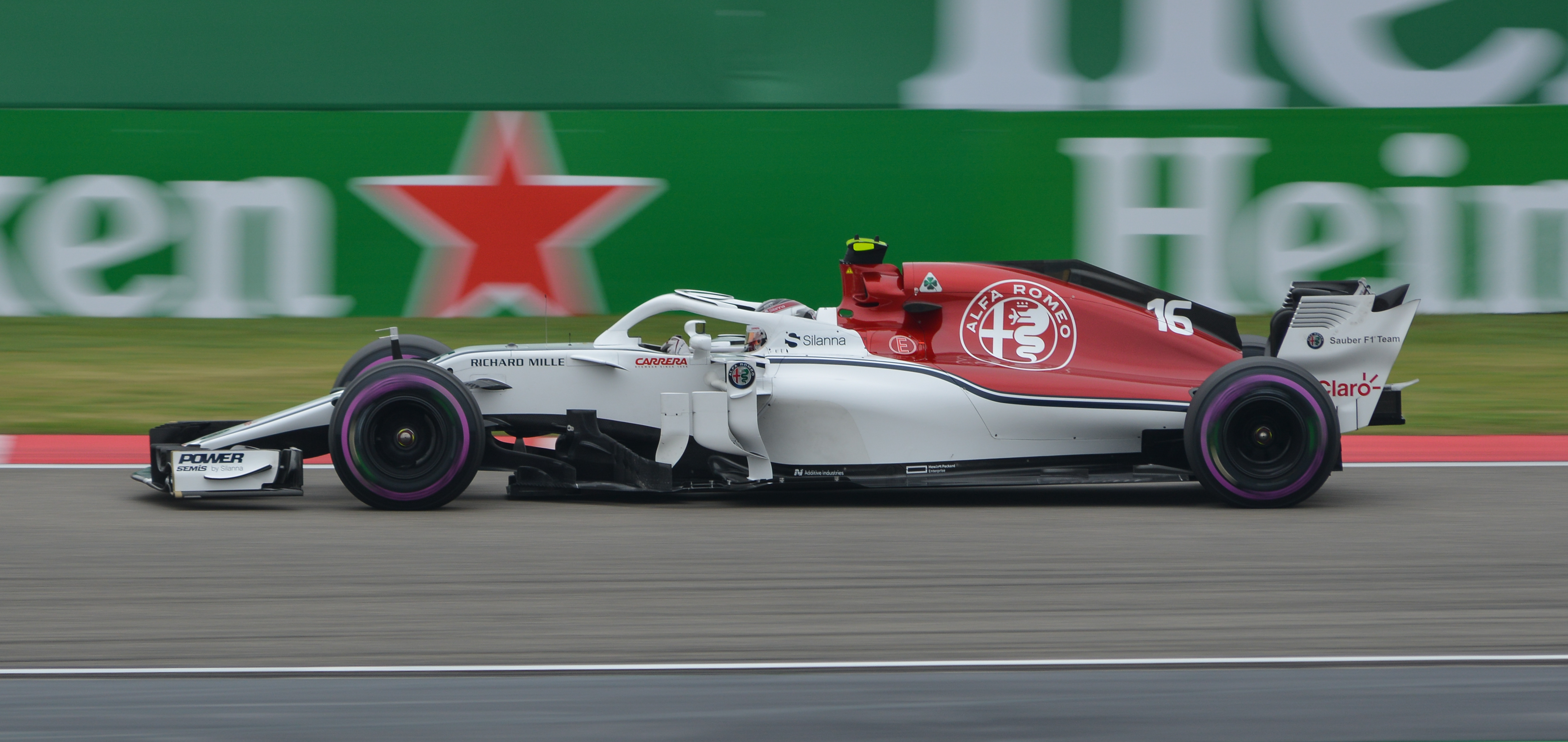 Monégasque racing driver Charles Leclerc on Sauber-Ferrari C37 of Alfa Romeo Sauber F1 Team, during the free practice of the 2018 Heineken Chinese Grand Prix at the Shanghai International Circuit.